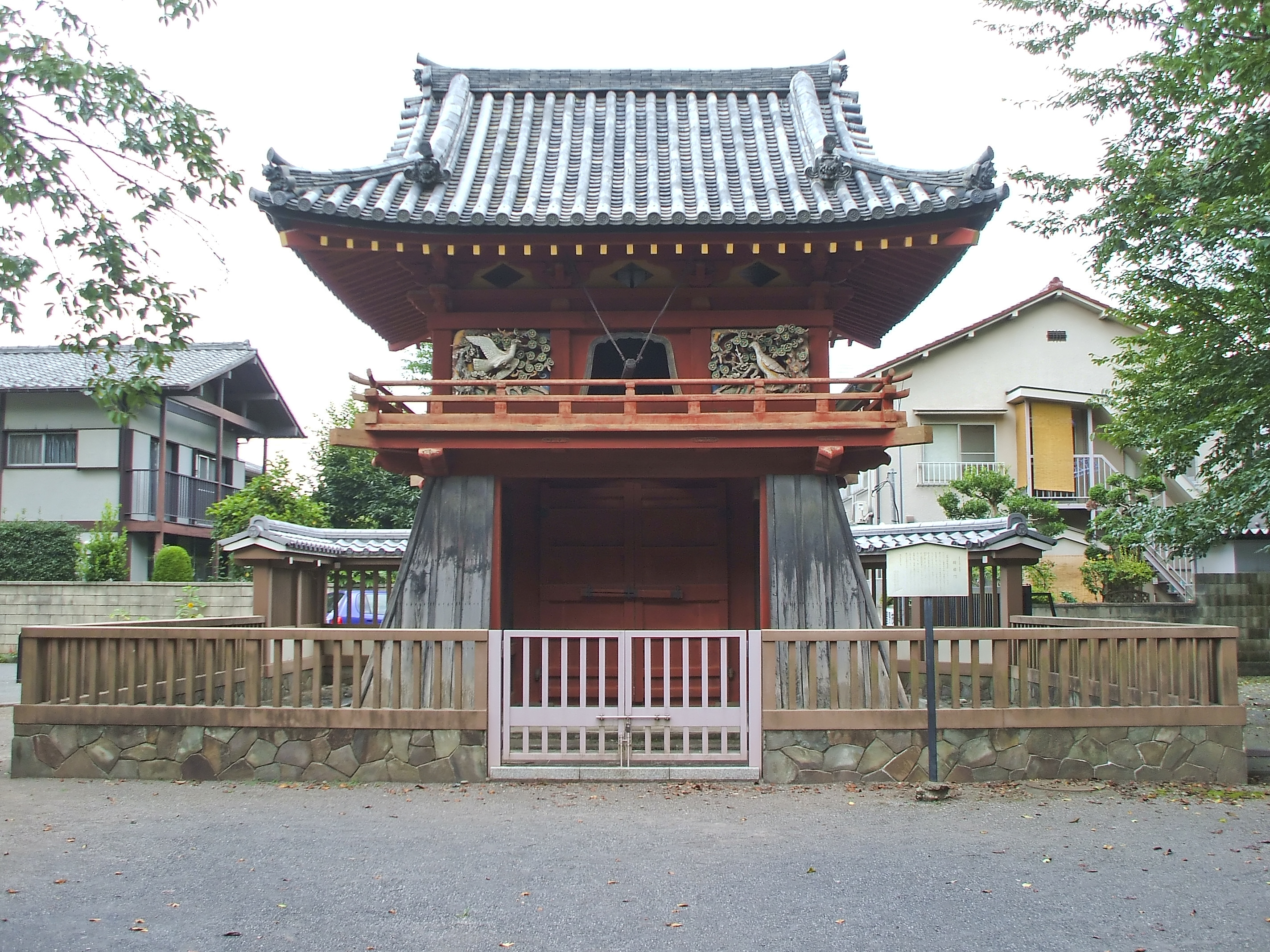 The bellfry at Kita-in, Kawagoe 埼玉県ja:川越市にあるja:喜多院の鐘楼門（重要文化財）